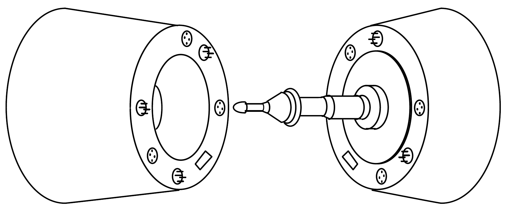 Original Soyuz probe and drogue docking system. The active unit (right) consisted of a probe and latches; the passive unit, a receiving cone, socket, and catches. The passive unit’s frustum was longer than the active unit’s because it was designed to accept the probe. The probe acted as a shock absorber. Its tip contained sensors which registered contact with the cone, disabled the active craft’s control system, and fired thrusters on the active craft to force the spacecraft together. The probe entered the socket at the apex of the cone, whereupon catches and a restraining ring locked it into place. Plugs and sockets in the rims of the docking units then established electrical and intercom connections between the spacecraft.